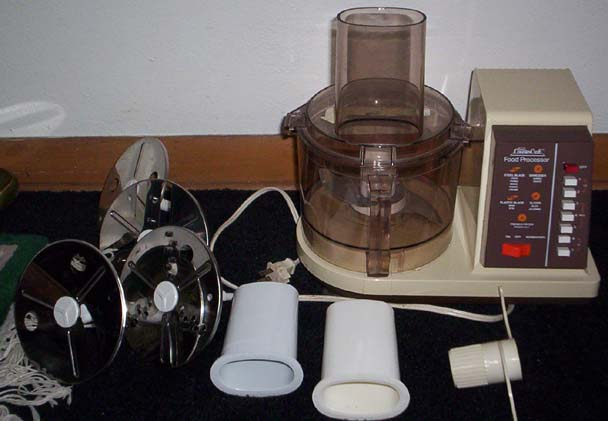 A food processor with accessories